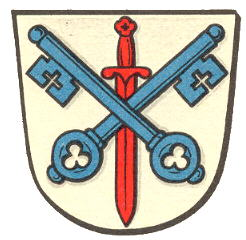 Coat of Arms of Arzbach